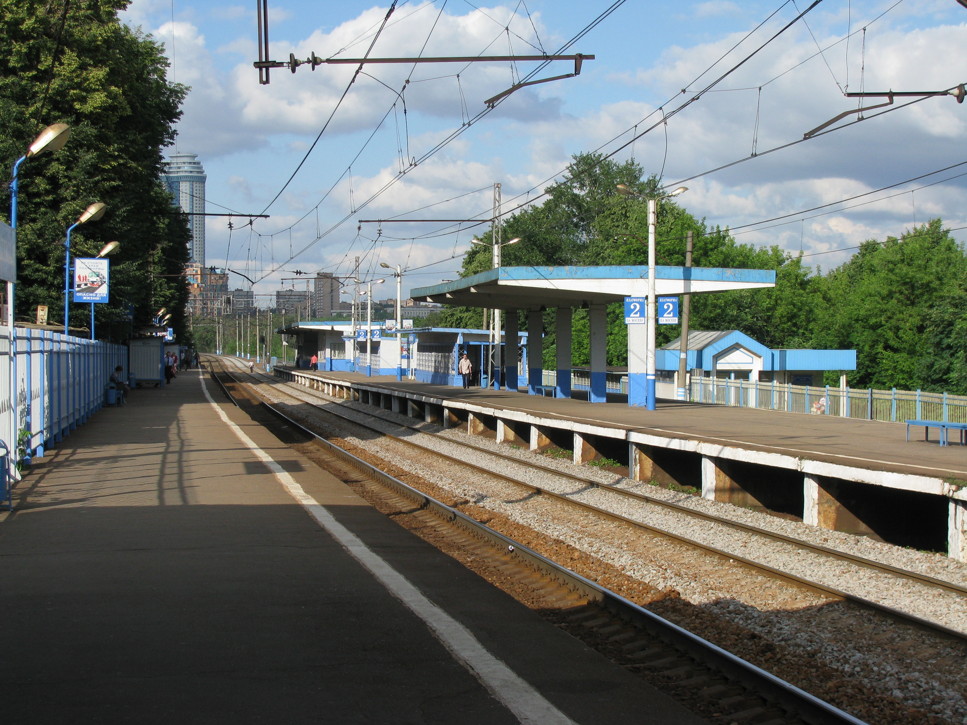 Matveevskaya railway station in Moscow, Russia